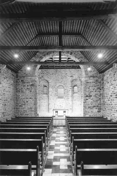 So-called 'chapter chapel' (Stifts- or Kapittelkapel) in the church of Saint Servatius in Maastricht, Netherlands, in 1967. The chapel is nowadays referred to as 'double chapel'. Since ca. 1990 it houses the Treasury (as was the case during the middle ages). Collection: RHCL, Maastricht, ref. nr. 14799.